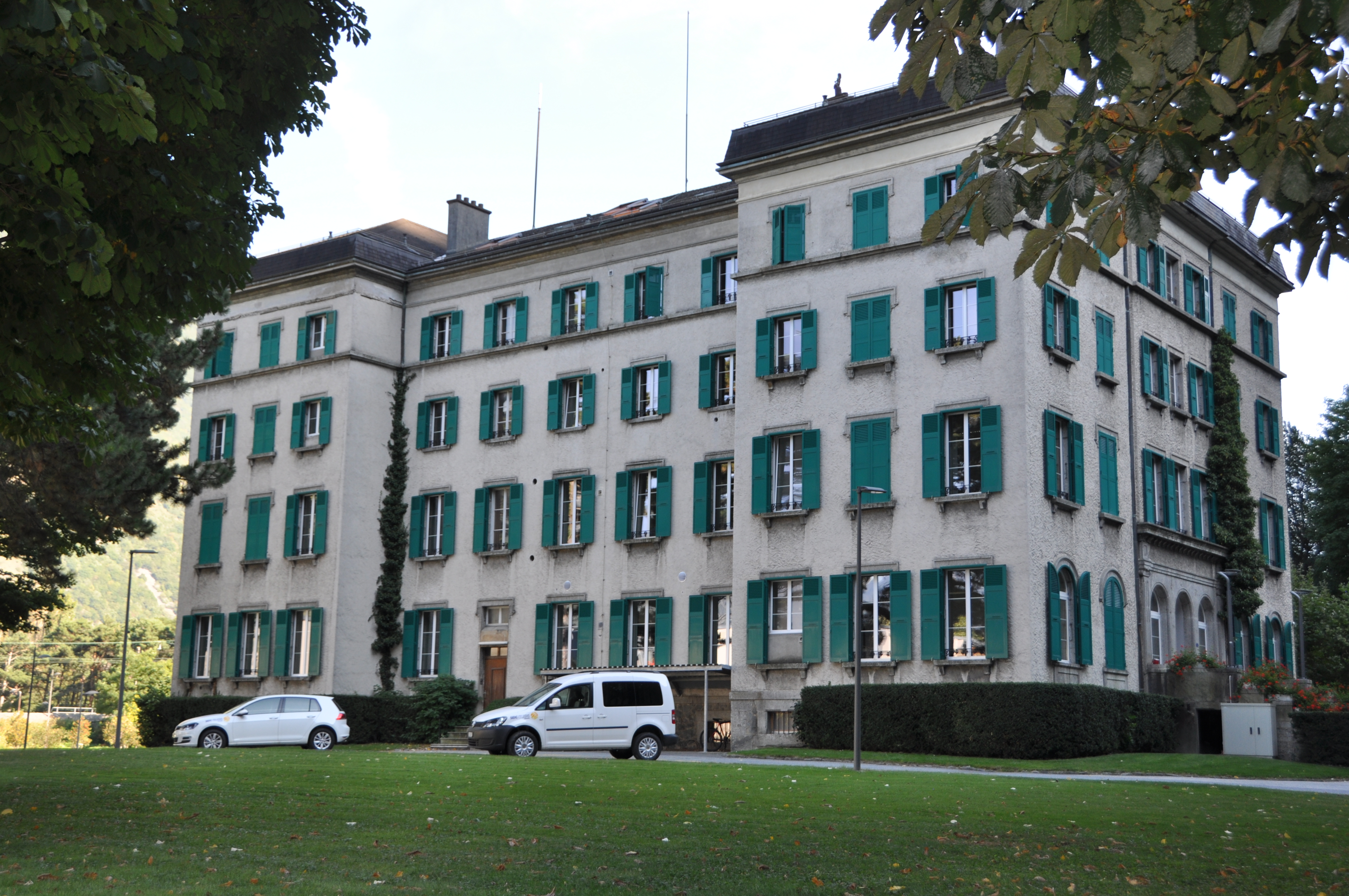 Grand Hôtel